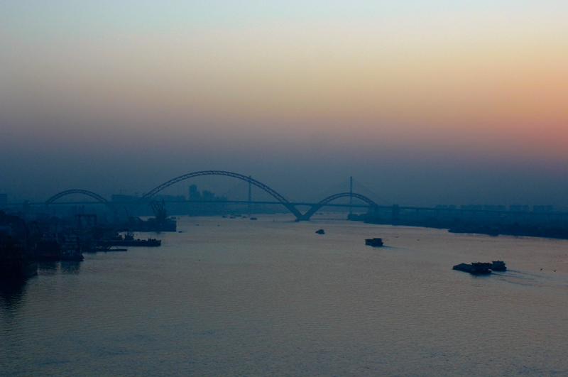 洛溪桥晨曦Scenery in Guangzhou, China